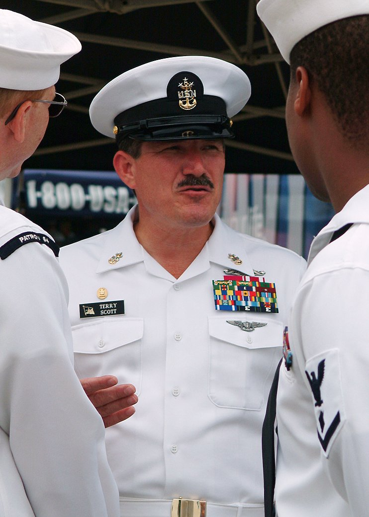 MCPON Terry D. Scott